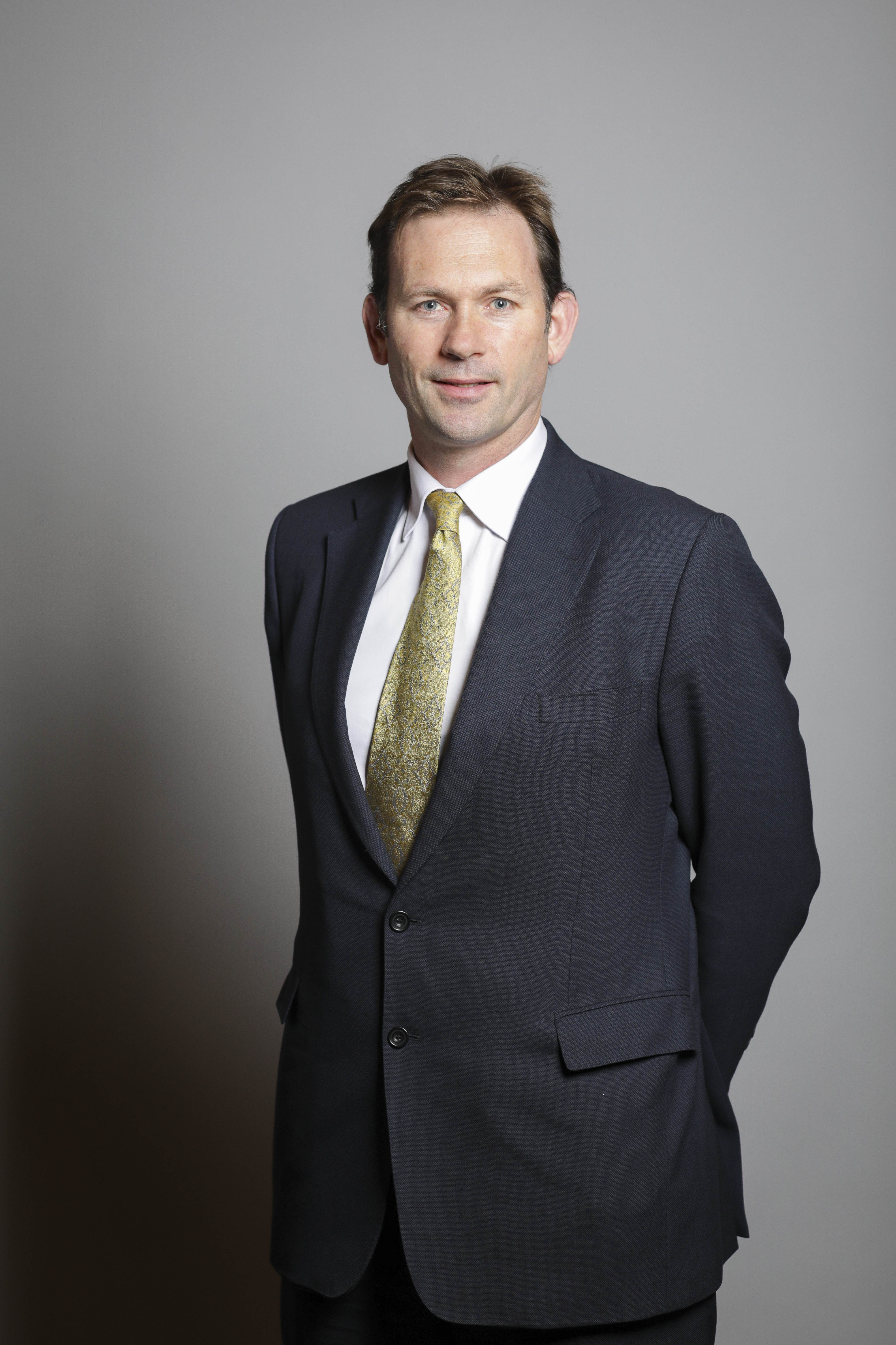 Official portrait of The Earl of Devon Full sized portrait of The Earl of Devon